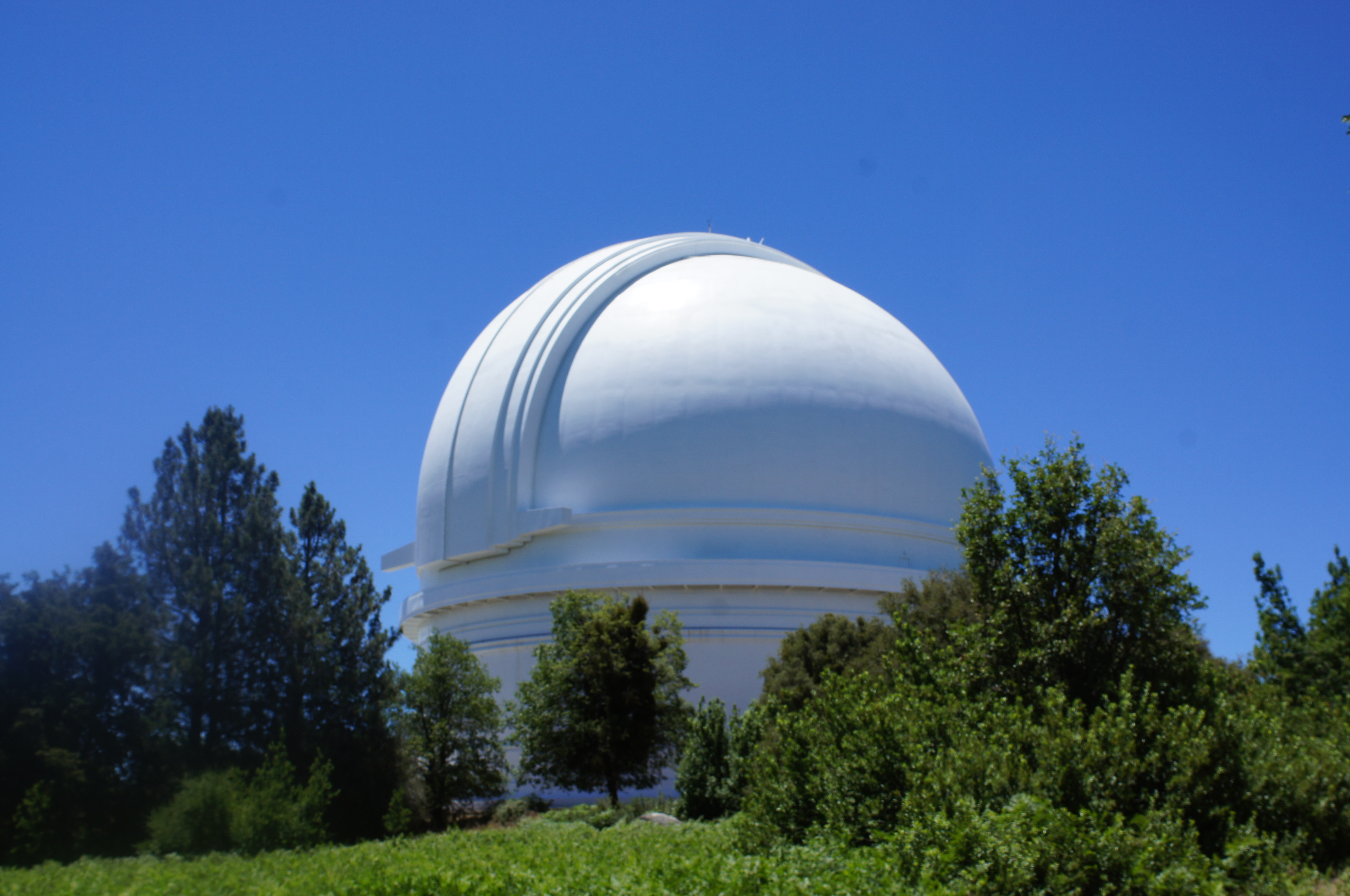 Hale Telescope, Palomar Observatory, California